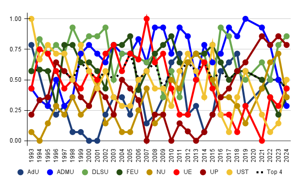 Elimination round results of UAAP men's basketball during the Final Four era.